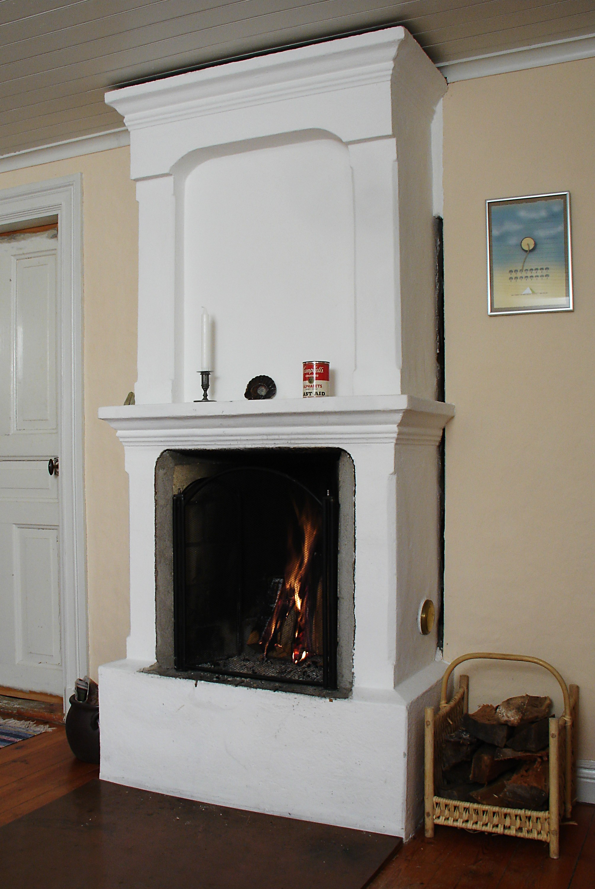 Stove with channels from appr. 1850. Västra Götaland in Sweden.